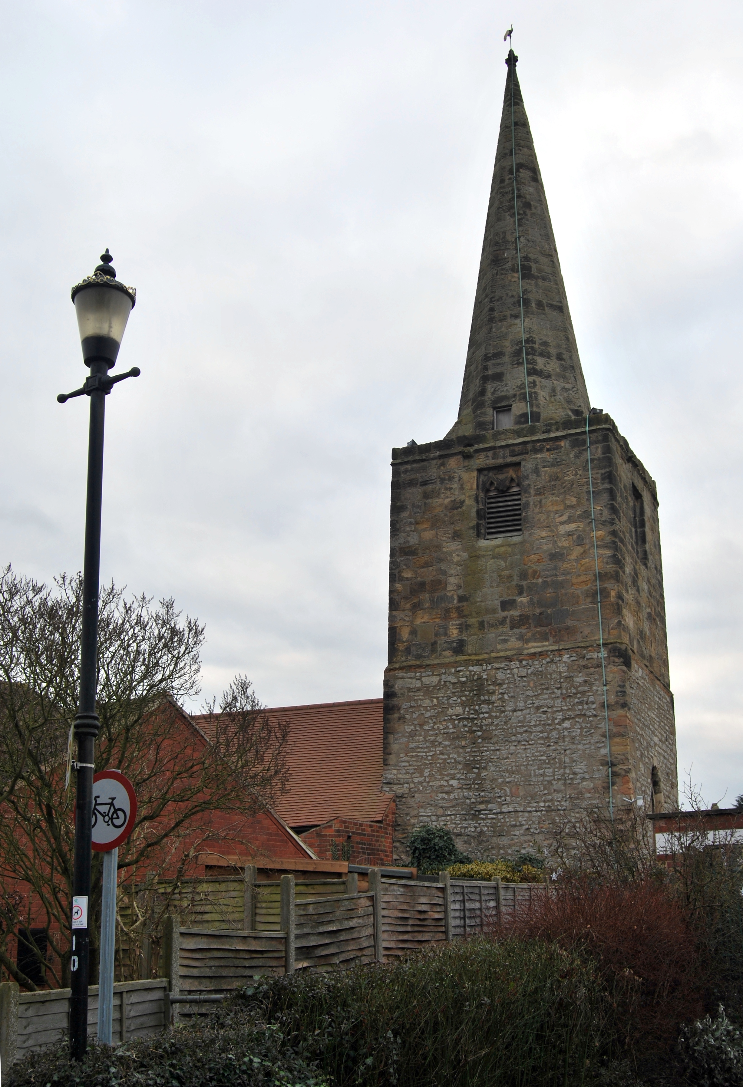 Tower and spire of former parish church, Bradmore, Nottinghamshire. The rest of the church was lost in a fire that devastated the village in 1706.